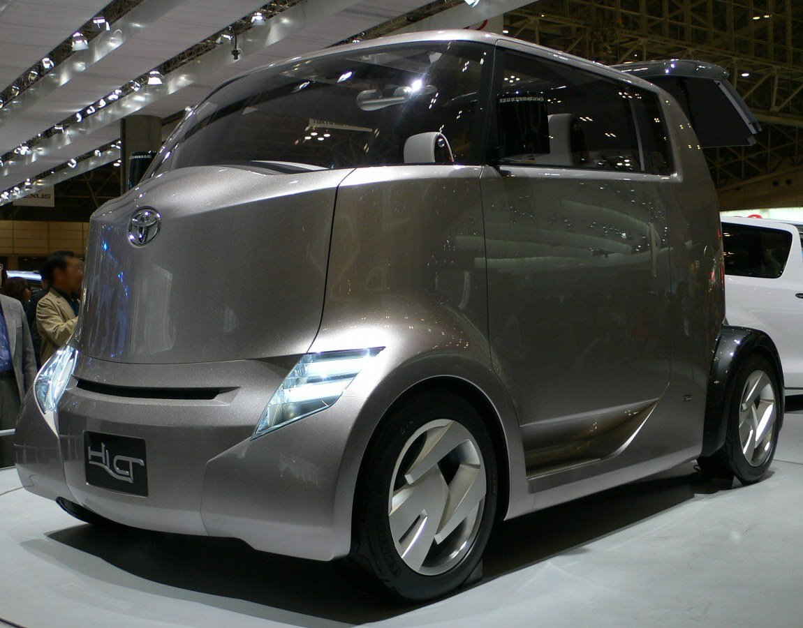 Toyota Hi-CT photographed in Tokyo Motor Show 2007